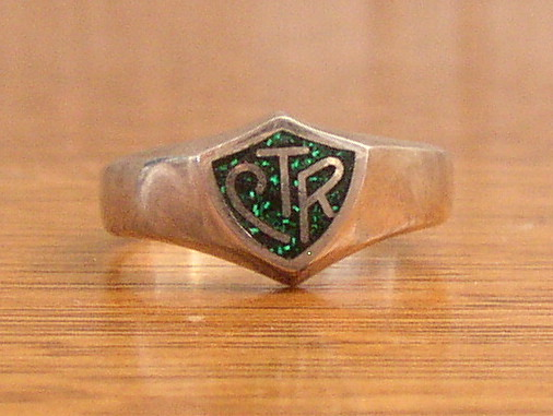 My CTR ring, made of white gold.